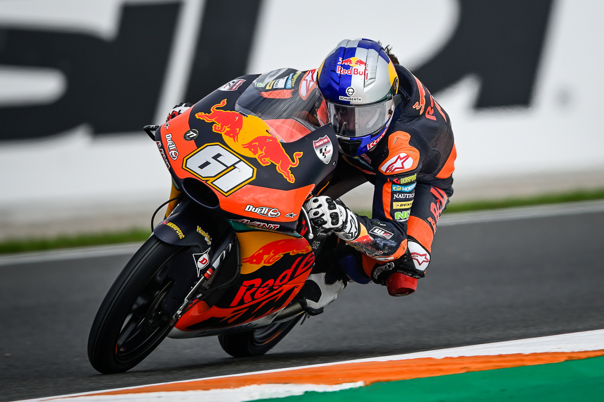 Can Öncü in the Moto3 practice at the 2018 Grand Prix of Valencia